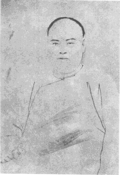 Dai Heng in Shanghai, 1874